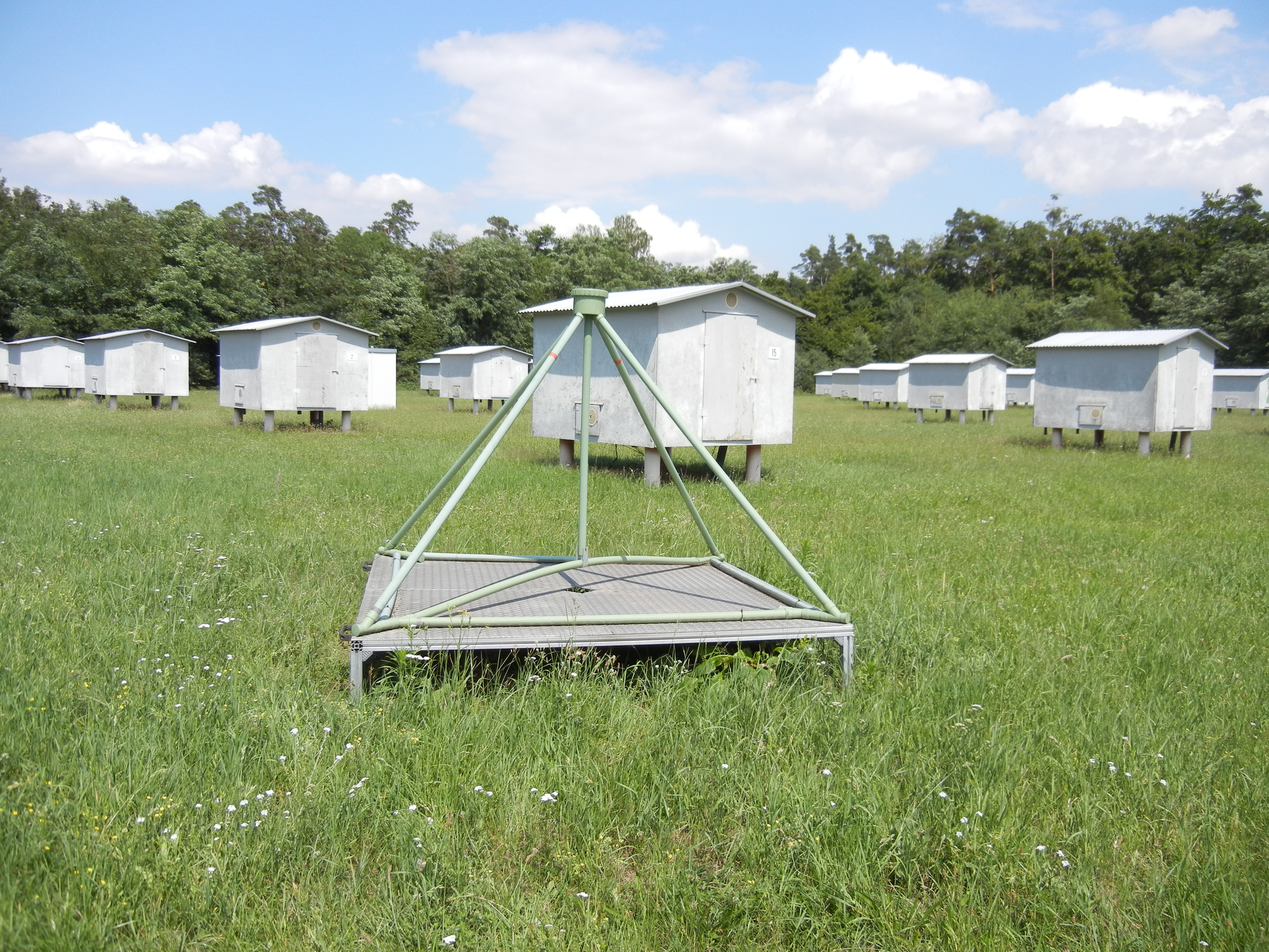 Dipole antenna of the LOPES experiment for the radio detection of cosmic ray air showers. Location: Karlsruhe Institute of Technology (KIT), Germany. Background: KASCADE experiment for comsic ray air shower detection. Dipolantenne des LOPES-Experiments zur Radiomessung von Luftschauern der kosmischen Strahlung. Ort: Karlsruher Institut für Technologie (KIT). Hintergrund: KASCADE-Experiment zur Messung von Luftschauern der kosmischen Strahlung